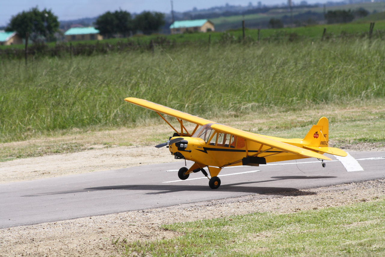 RC Cub